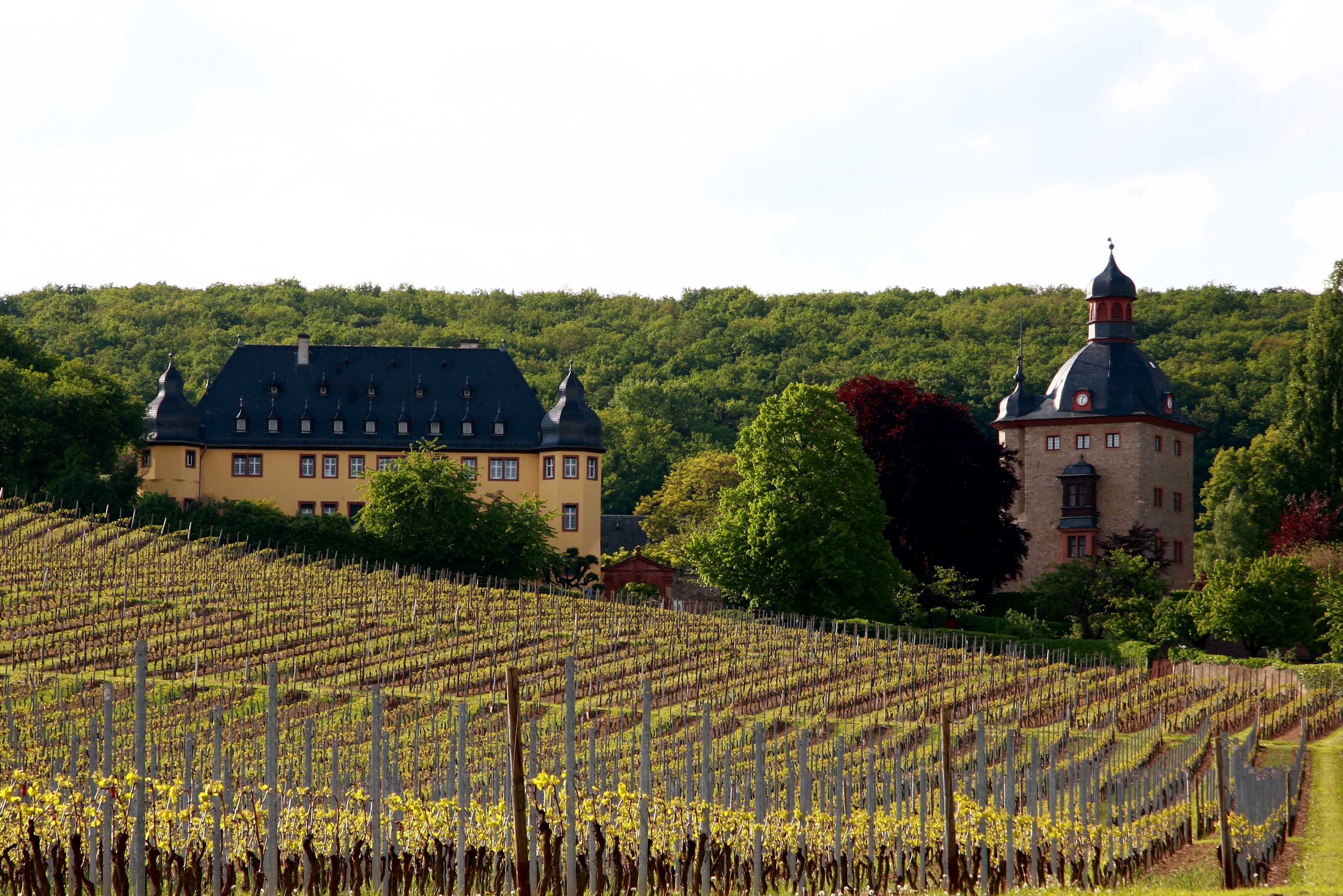 View from Winkel to Schloss Vollrads, the Taunus forest in the background